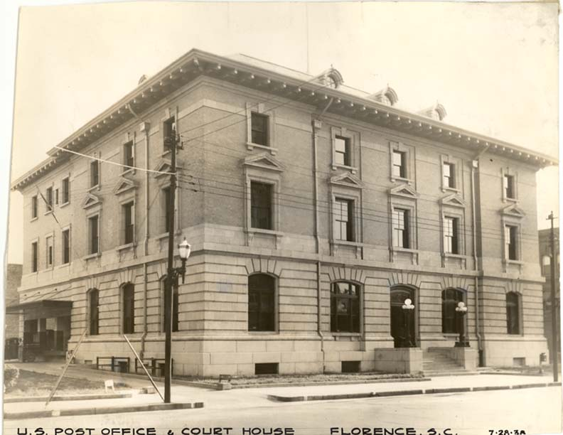 The U.S. Post Office in Florence, South Carolina in 1938. It served as the Federal Courthouse from 1906 until 1975.